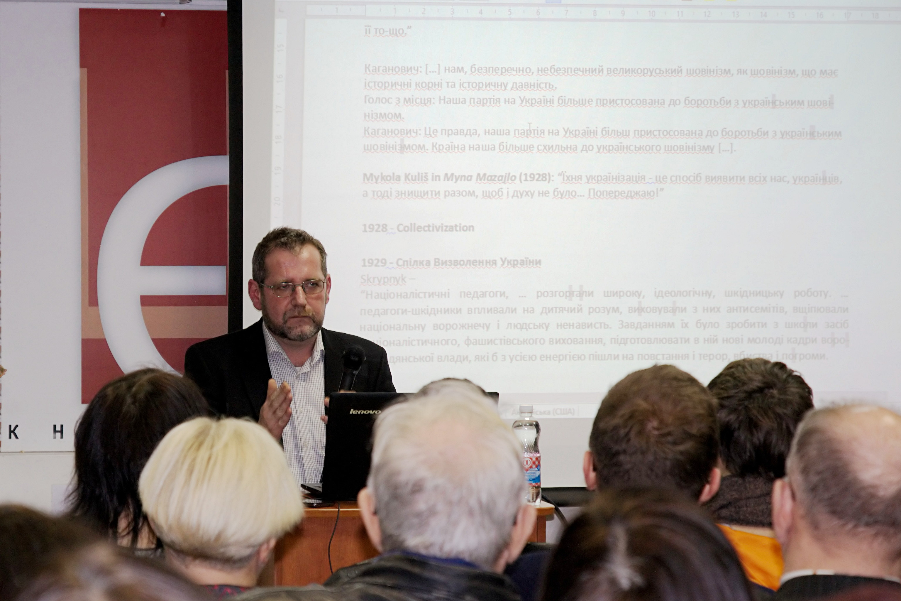 Michael Moser lecture on the "Bookstore Є". February 19, 2016, Kyiv.